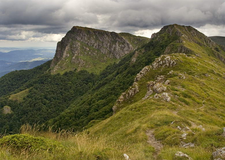 Reserve "Kozya stena" in Central Stara planina. Photo taken from the peak above.